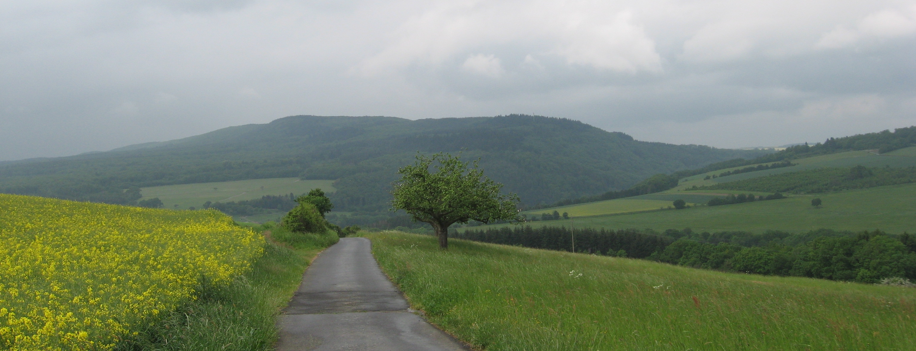 Lützelsoon forest in the Hunsrück landscape, Germany